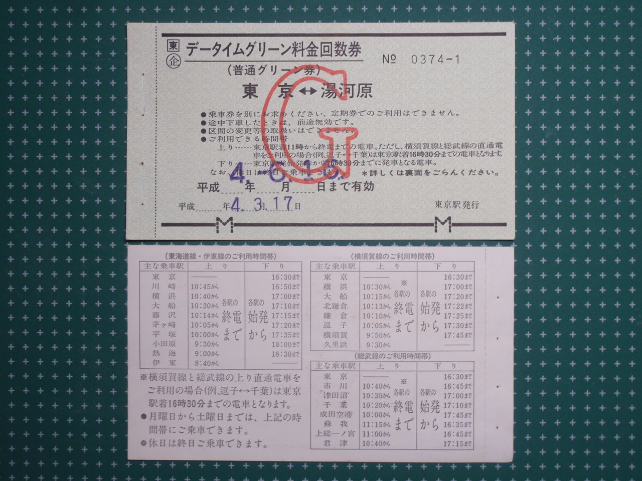 Daytime Repeat Ticket for Green Car at 1992